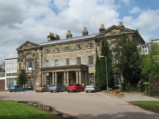 Moseley Hall, Moseley, Birmingham, England. Now Part of an NHS Hospital. The original owner was a joint founder of Lloyds Bank. It later came into the hands of one of the Cadbury brothers who eventually gave it to the City of Birmingham for use as a hospital. It is Grade II listed.